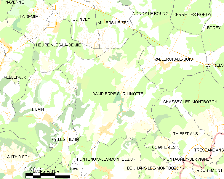 Map of French municipality